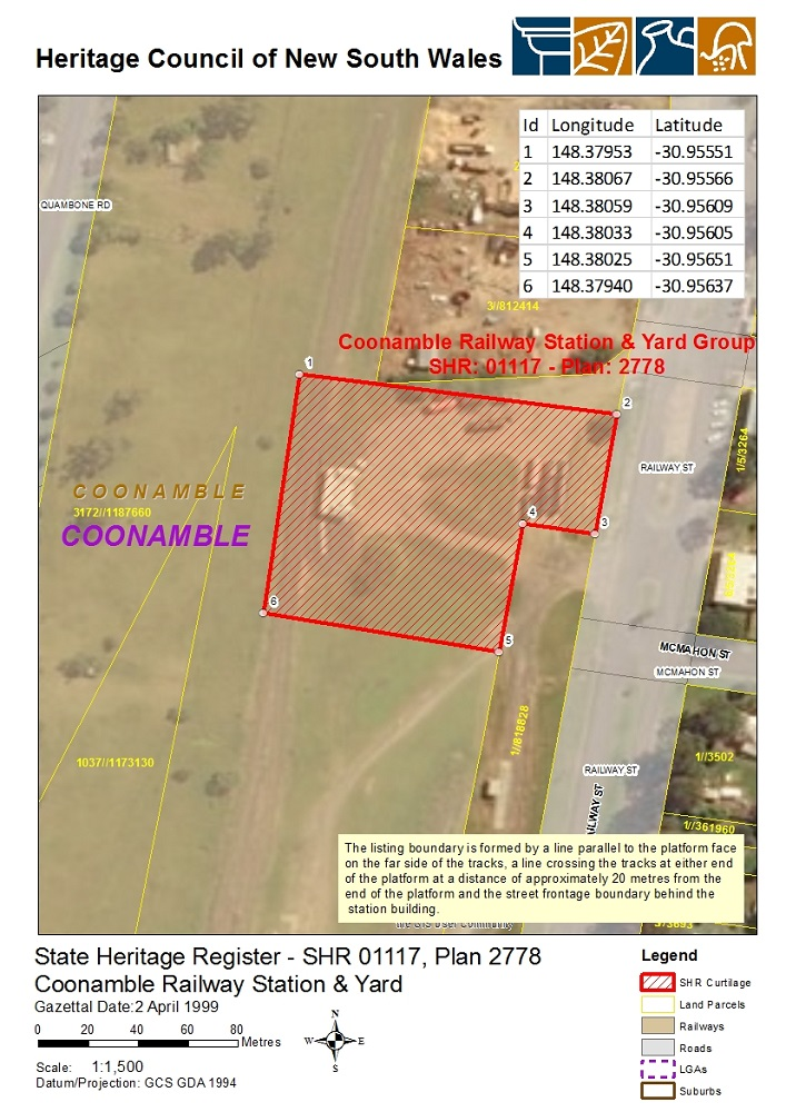 Coonamble railway station: SHR Plan No 2778